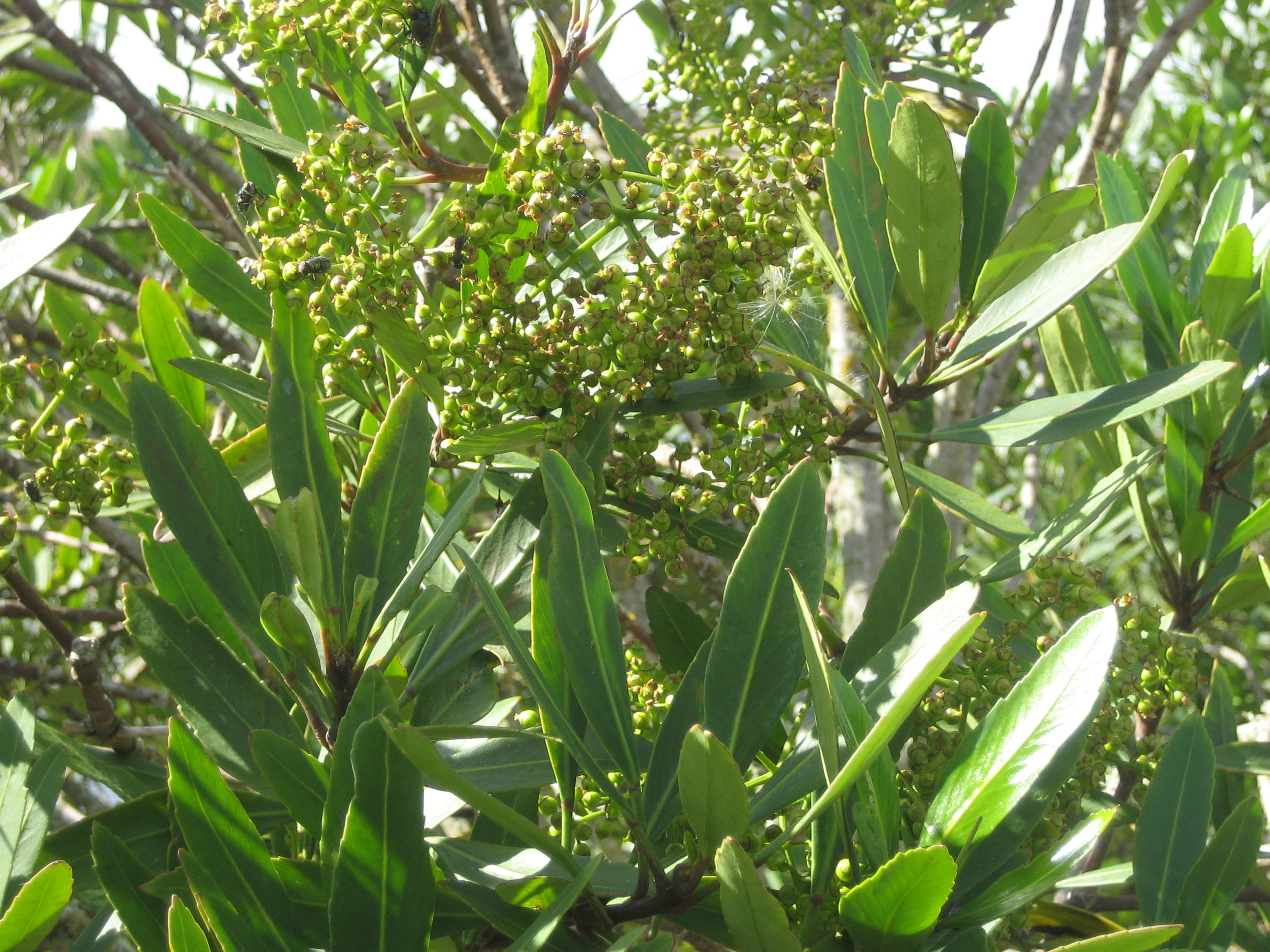 Pseudopanax crassifolius, adult foliage and developing fruit, Mangaweka, Central North Island, New Zealand